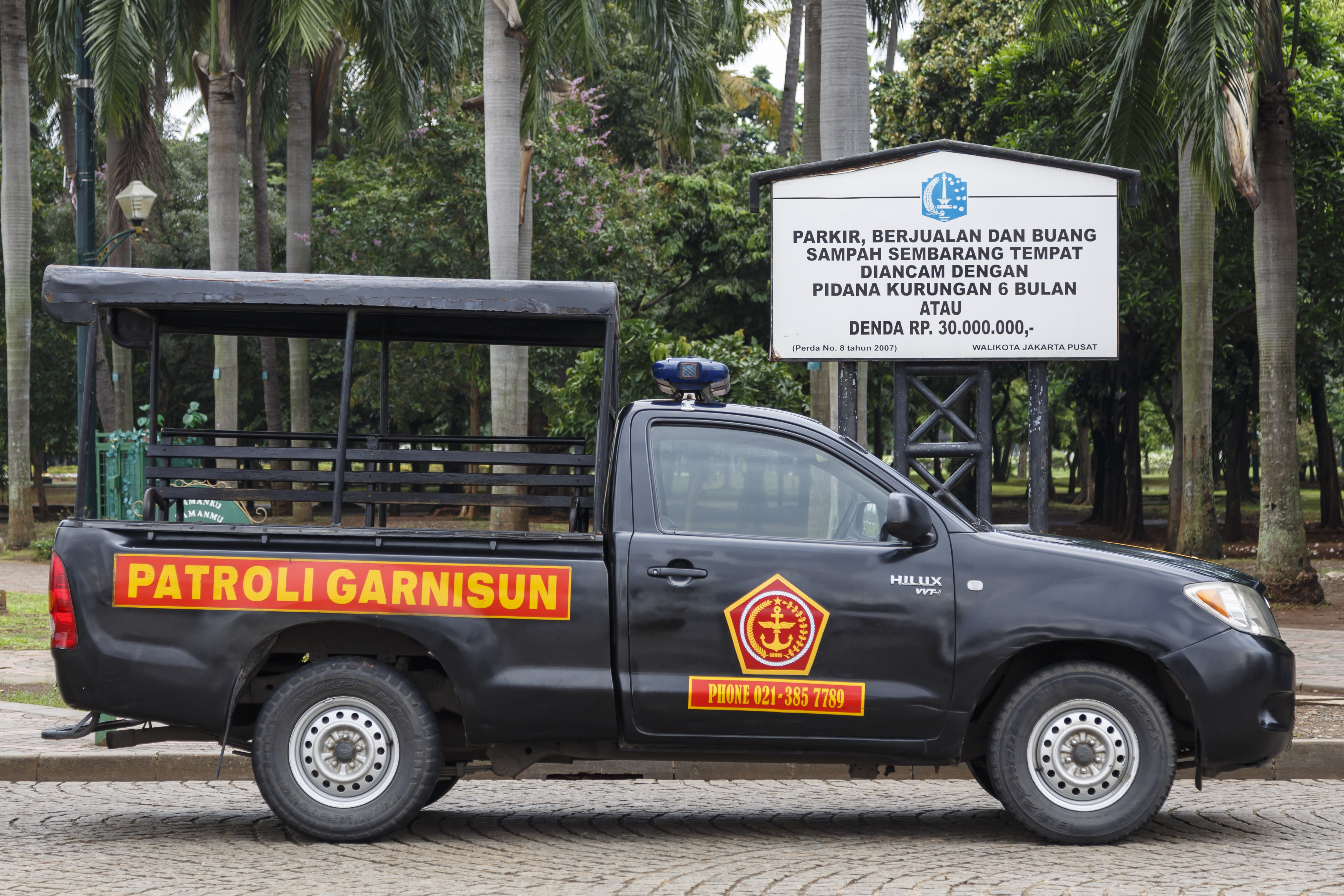 Jakarta, Indonesia: A Toyota Hilux VVT-I military car at Merdeka Square.